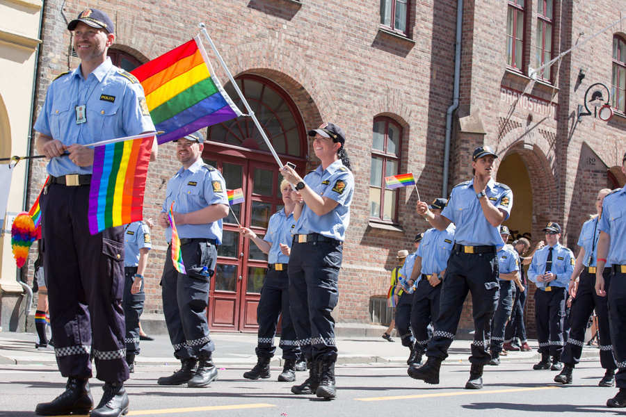 Participants in Pride parade in Oslo